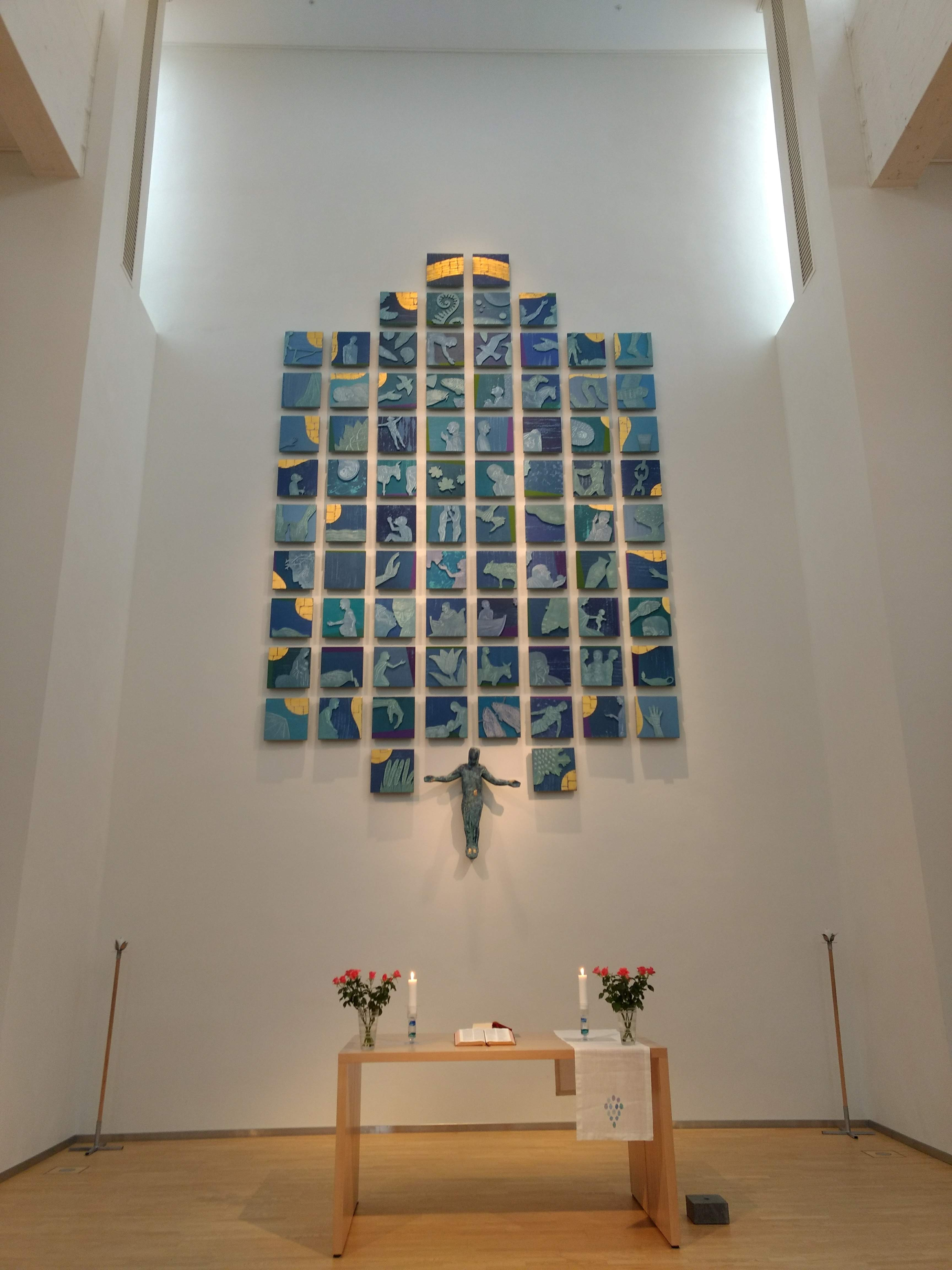 Altar area, Hunstad church